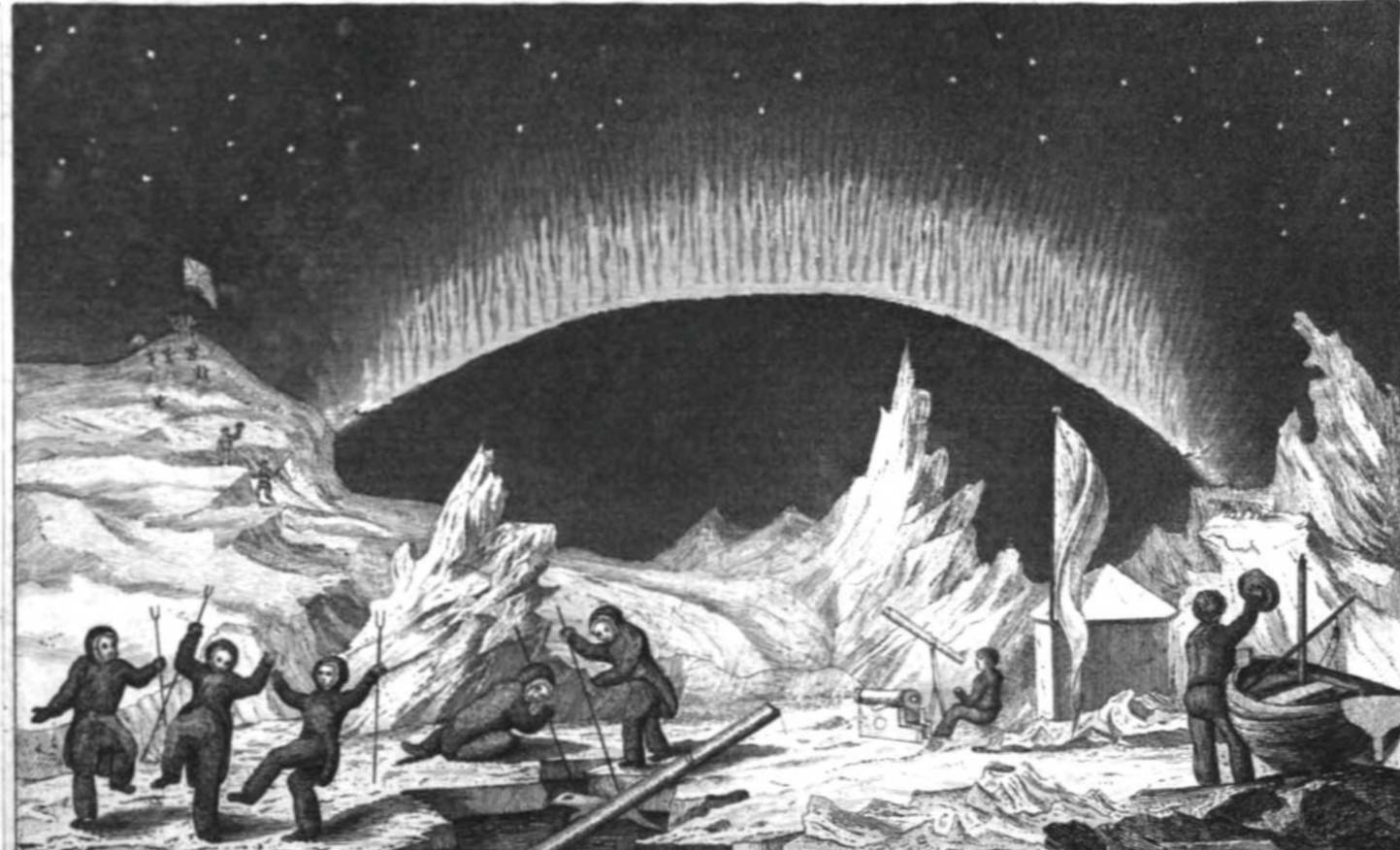 Image from Huish's 1835 book entitled Com'r Ross Planting the British Standard on the True Position of the Magnetic Pole In 1831, as part of an expedition led by John Ross, a party led by James Clark Ross was the first to reach the North Magnetic Pole. Illustration in 1835 book by Robert Huish, facing page 589